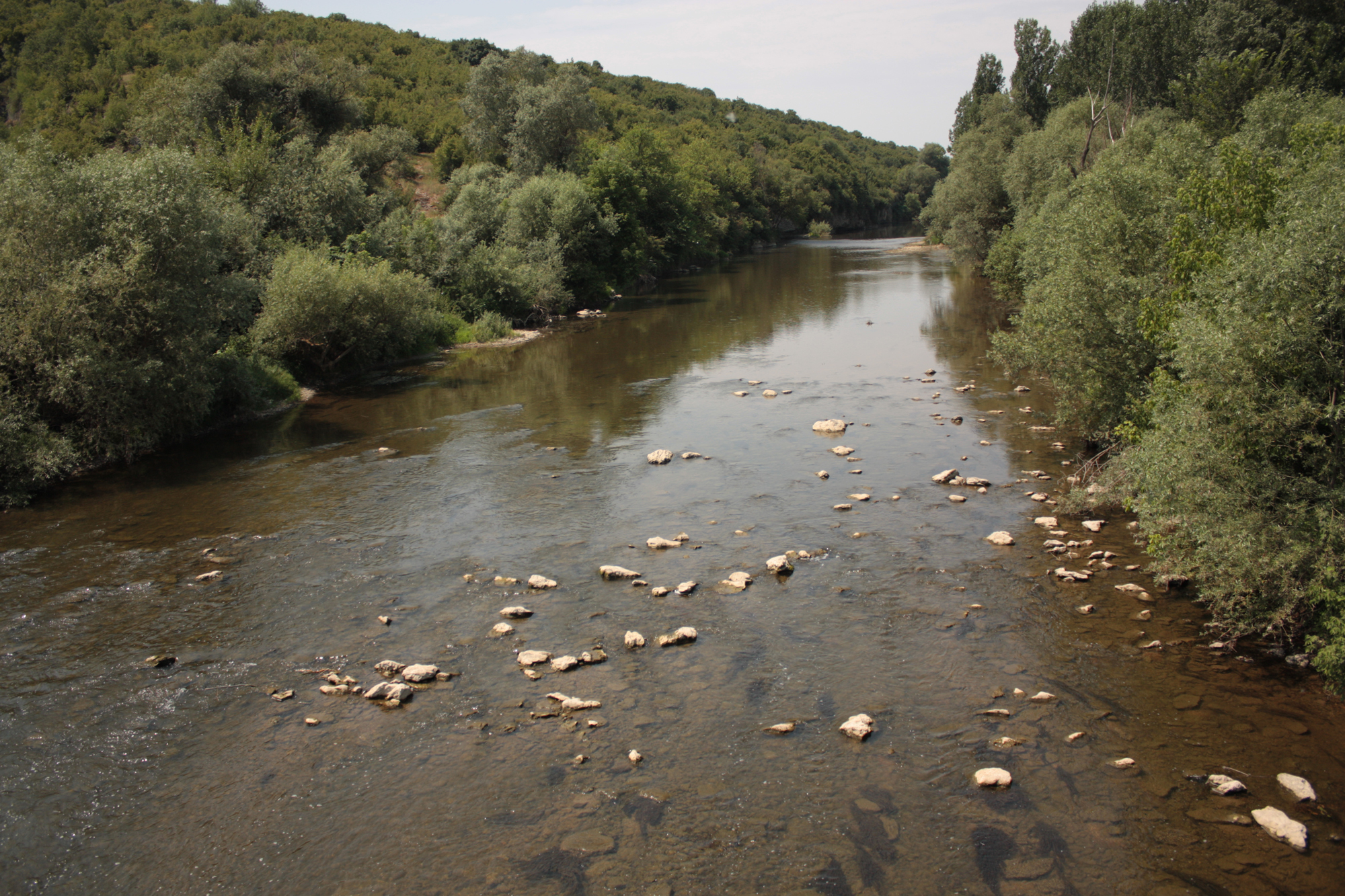 River Osam at Devetaki Village, Lovech District, Bulgaria